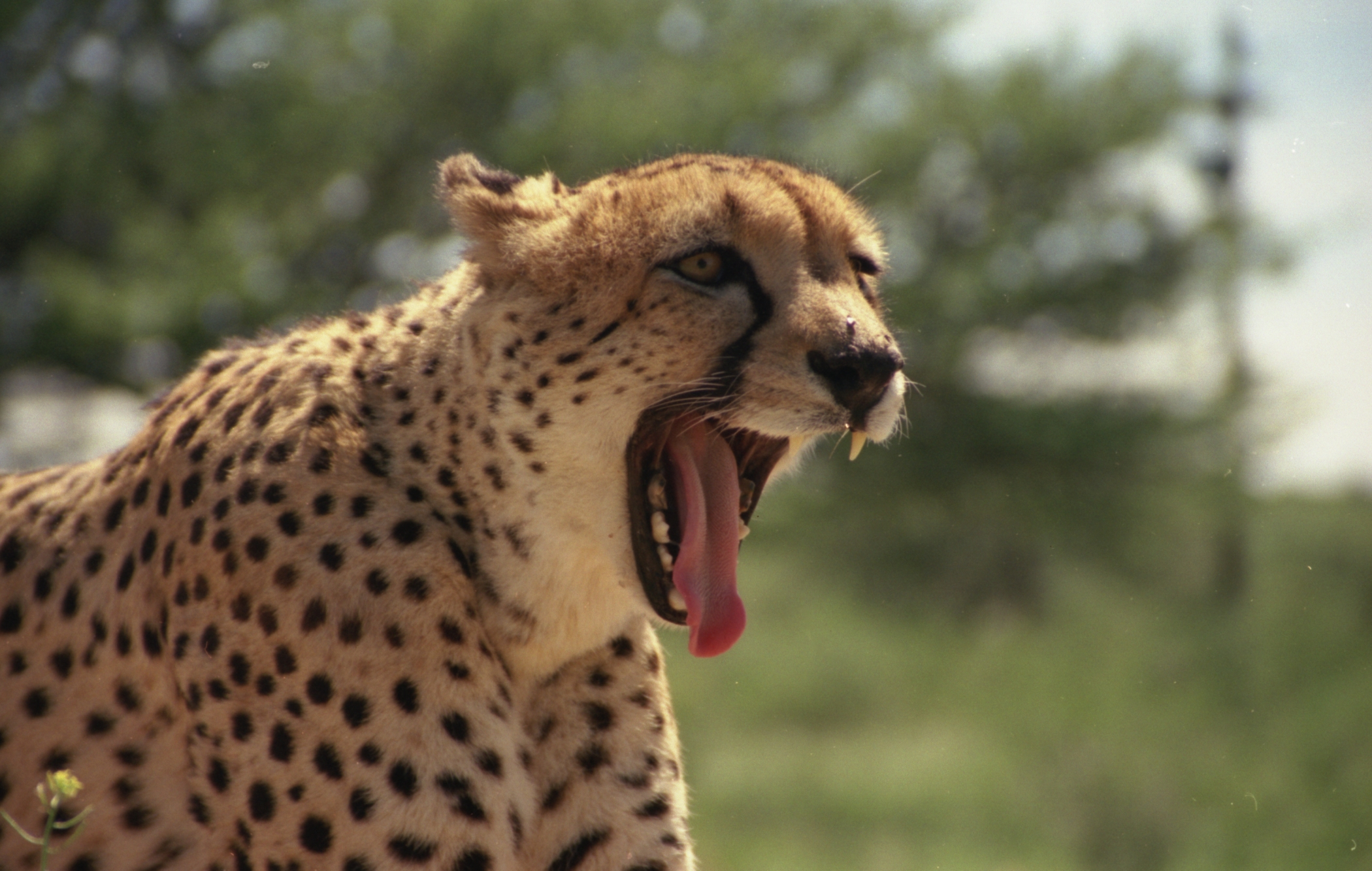 CCF's Cheetah Ambassador, Chewbaaka, yawning. Author: P. Tricorache.